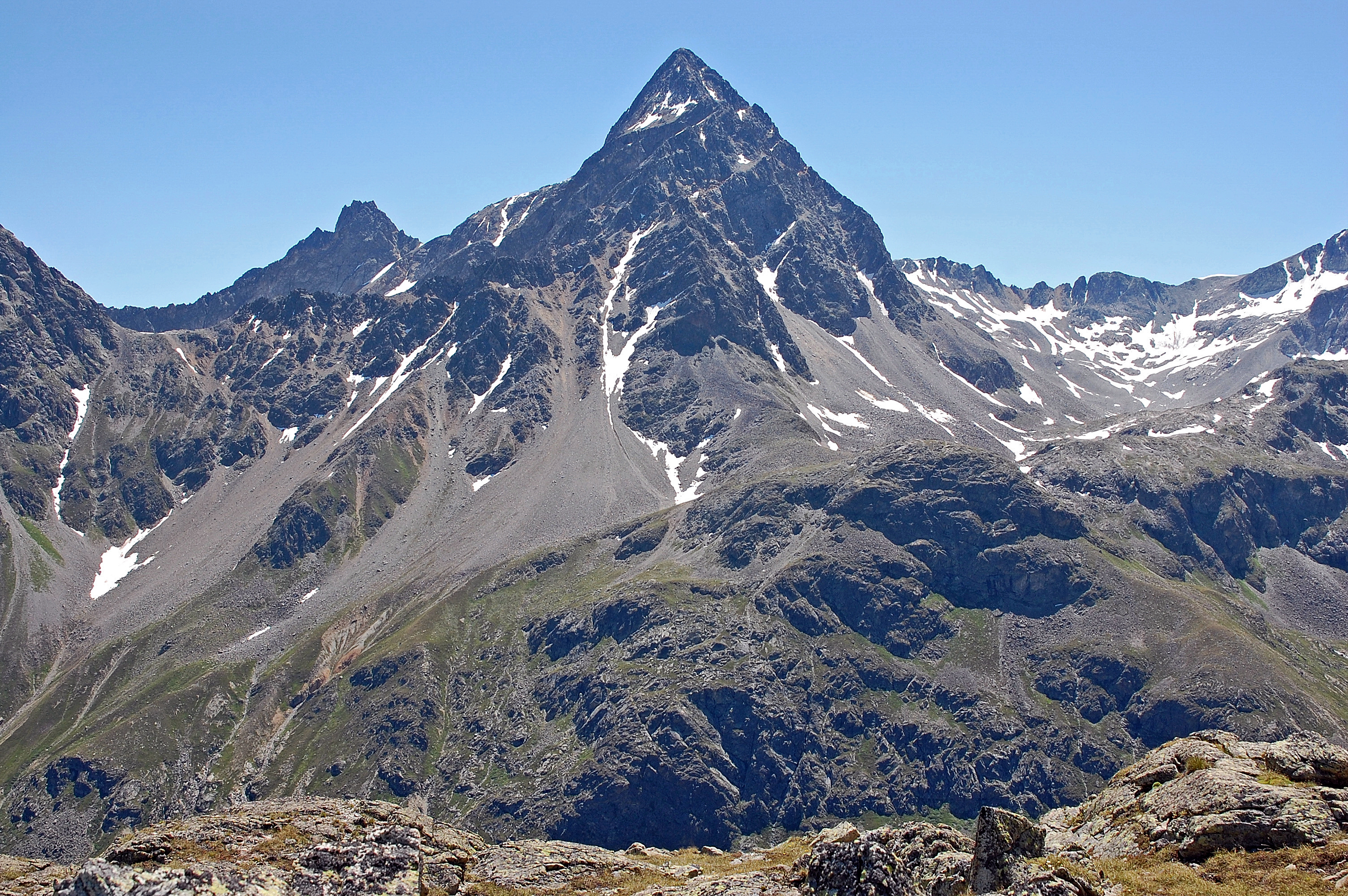 A rare view of Piz Ot (3246m/10650ft) from North. Piz Ot is more often photographed from South. At Fuorcla Crap Alv I was climbing a little further uphill just for getting this viewing angle. Die Nordseite des Piz Ot, aus der Nähe von Fuorcla Crap Alv aufgenommen